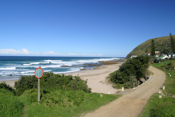 The view of Whale Point lookout from the seaside village of Haga Haga